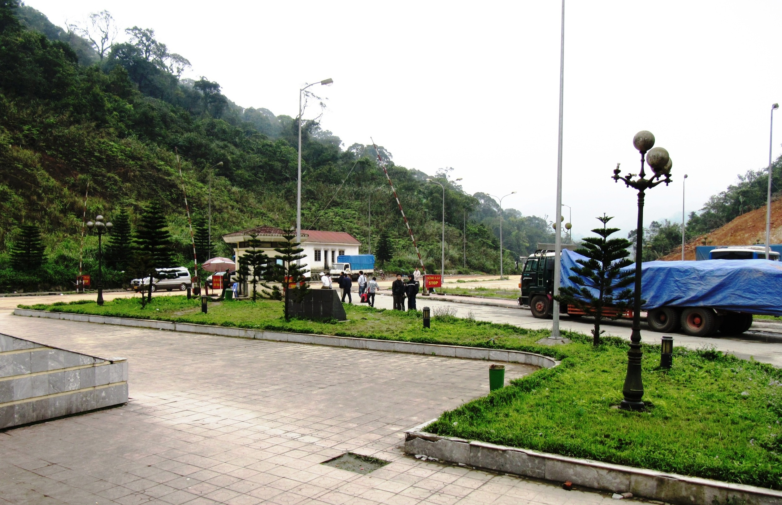 Top of Keo Neua Pass on border between Vietnam and Laos, 2010